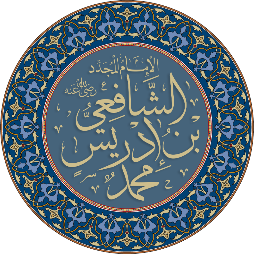 Al-Shafie Name